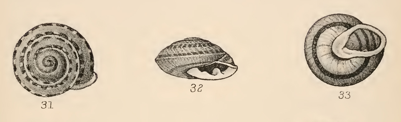 Drawing of Pleurodonte josephinae typical morph